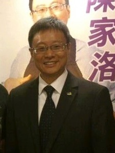 dr.chan ka lok,the legislator of Hong Kong